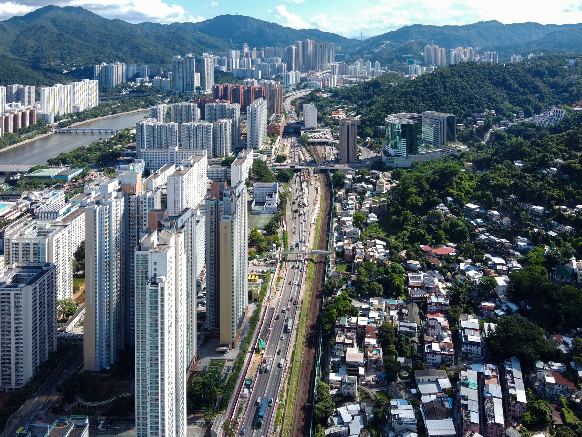 Tai Po Road Shatin Section